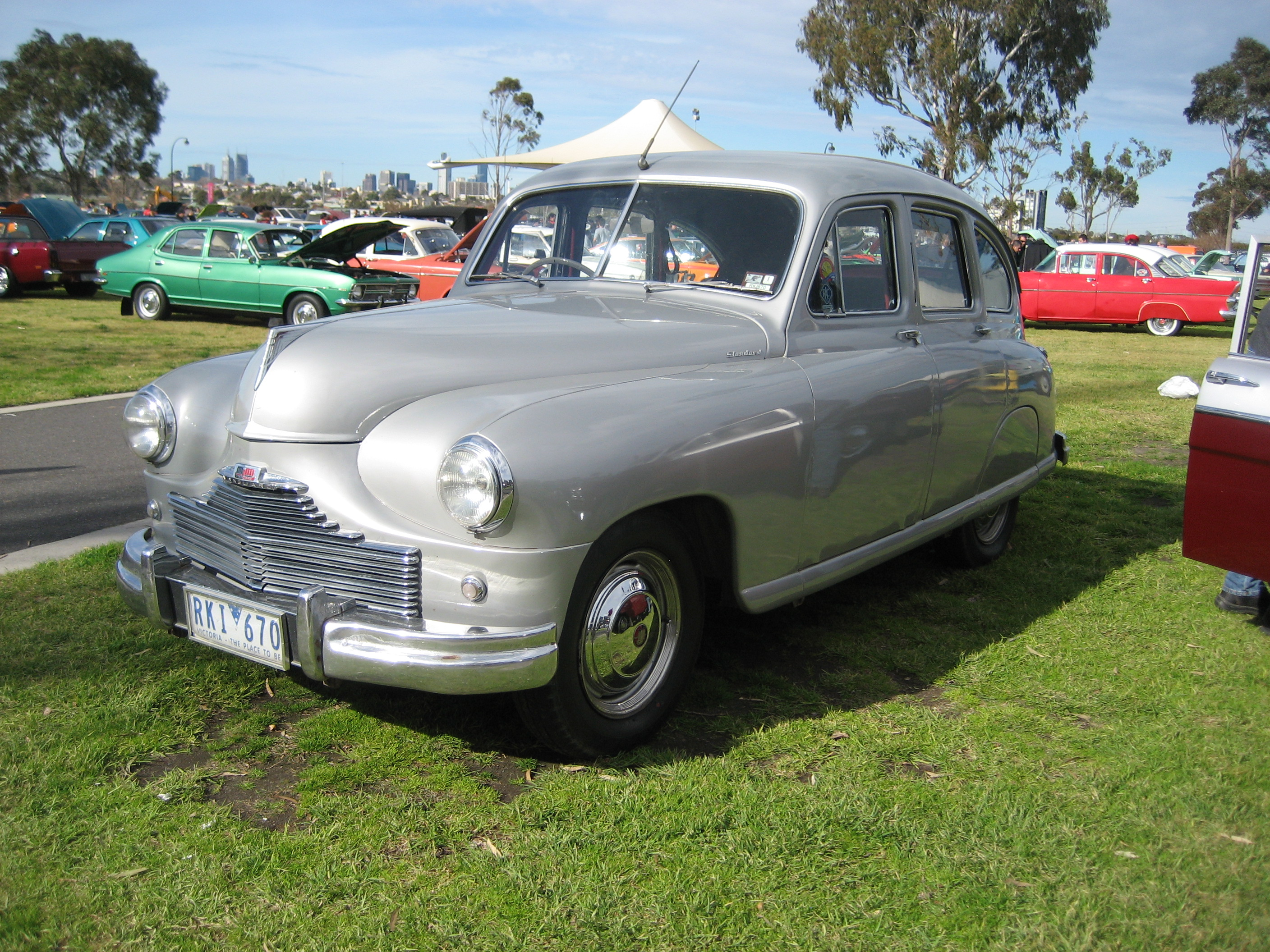 The Phase I was built from 1947-53. Available in Saloon, Estate and the Australian Utility. There was an update in 1952; the bonnet came lower and it got a more open grille and a wider rear window